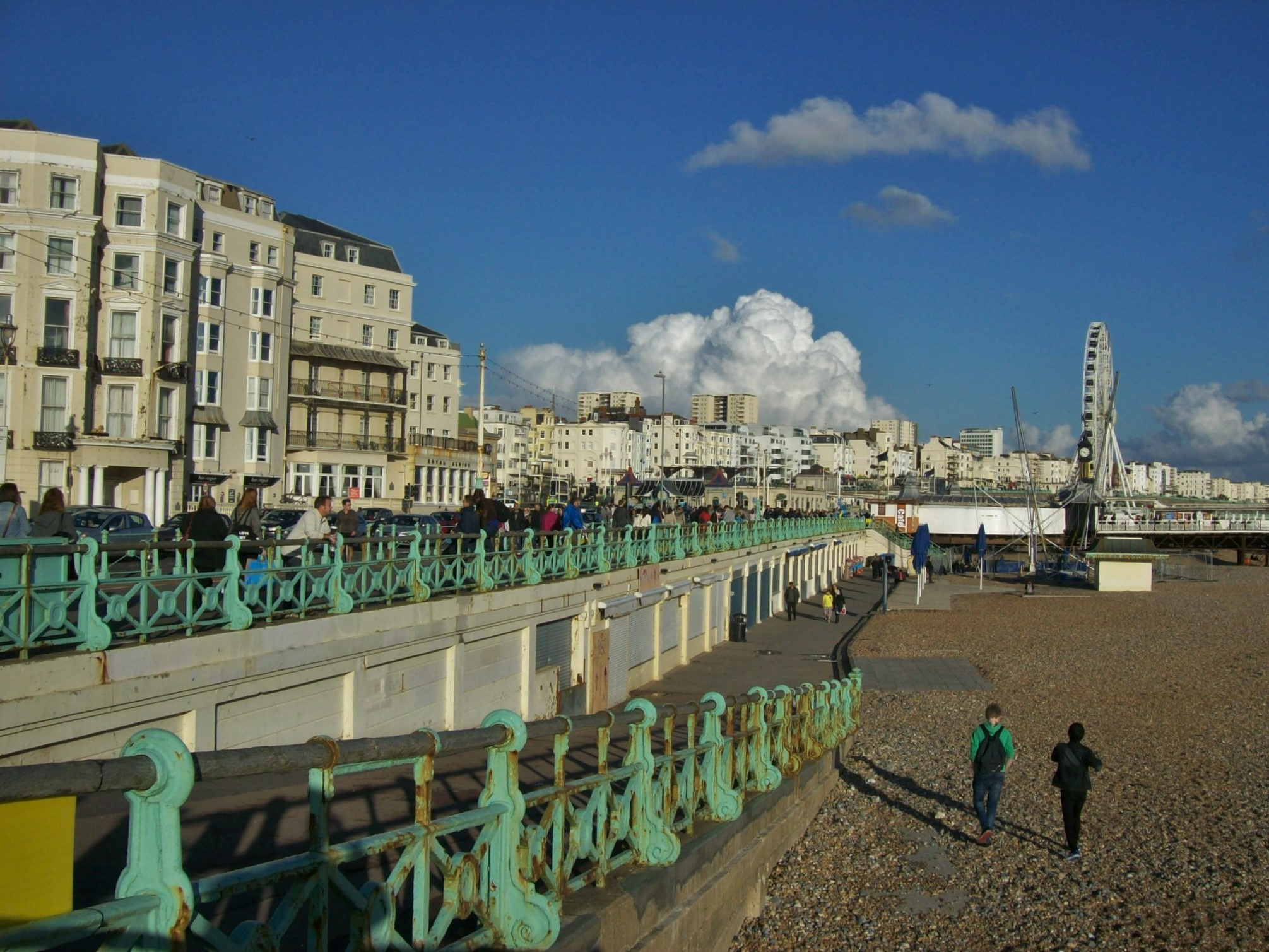 Brighton sea front